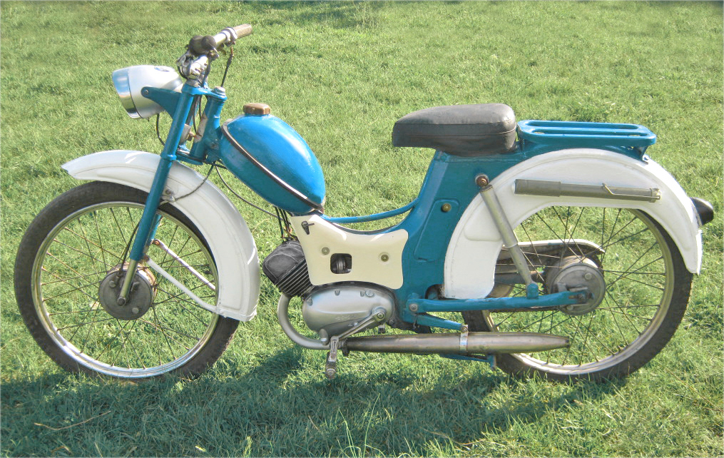 USSR moped « Riga-3»,1964 Riga motorcycle factory